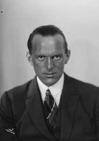 Norwegian military officer, aviator, author and polar explorer Tryggve Gran